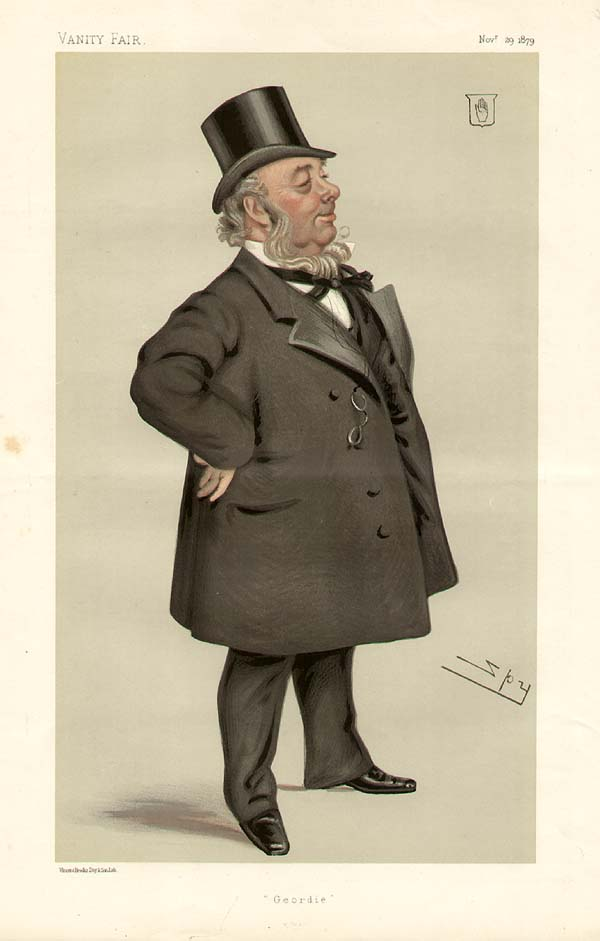 Caricature of Sir G Elliot Bt MP. Caption read "Geordie".